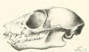 « Chirogale milii » = Cheirogaleus major (Greater dwarf lemur) - ???